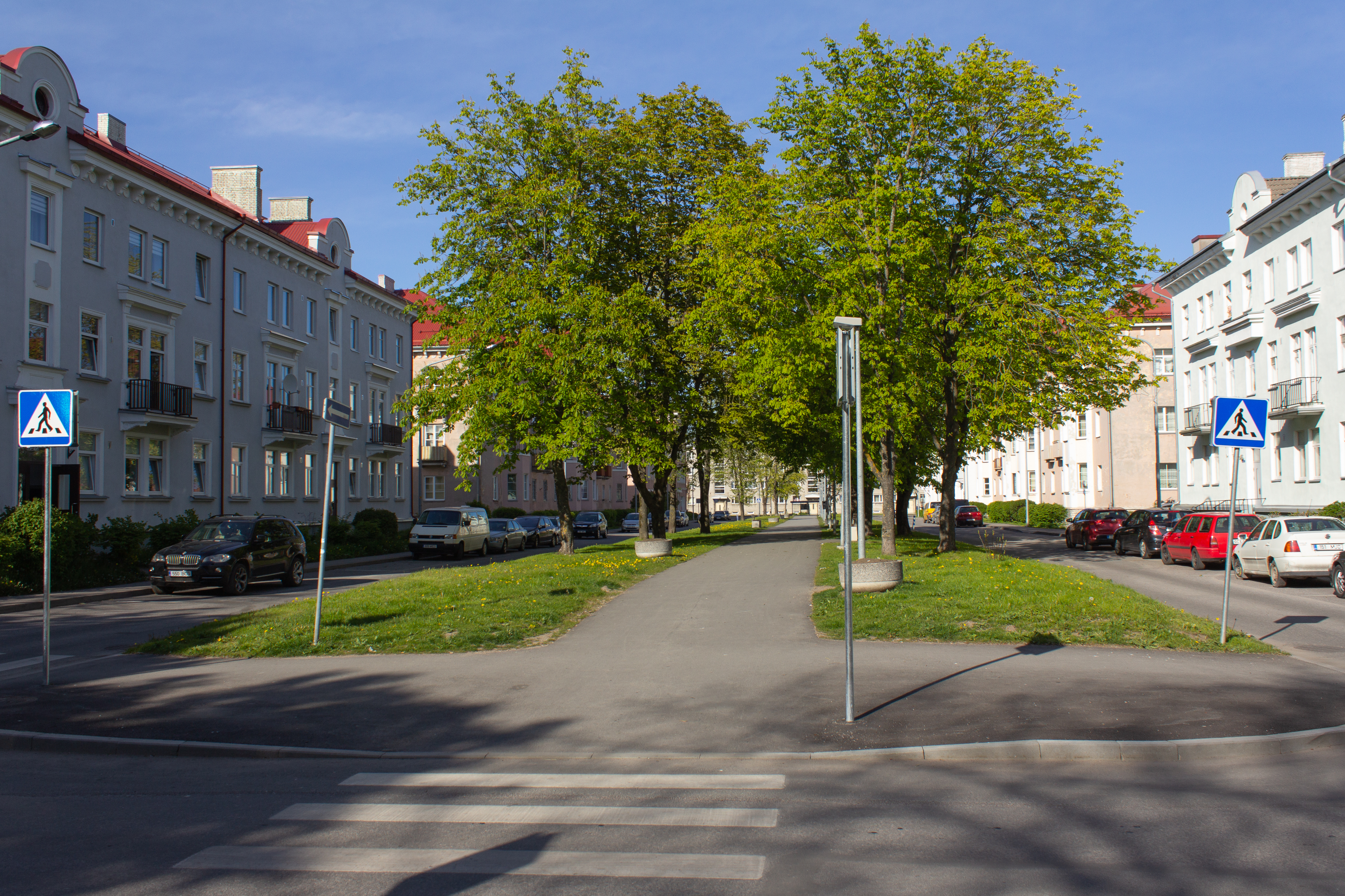 Lõime Street, Tallinn (2020-05-23)